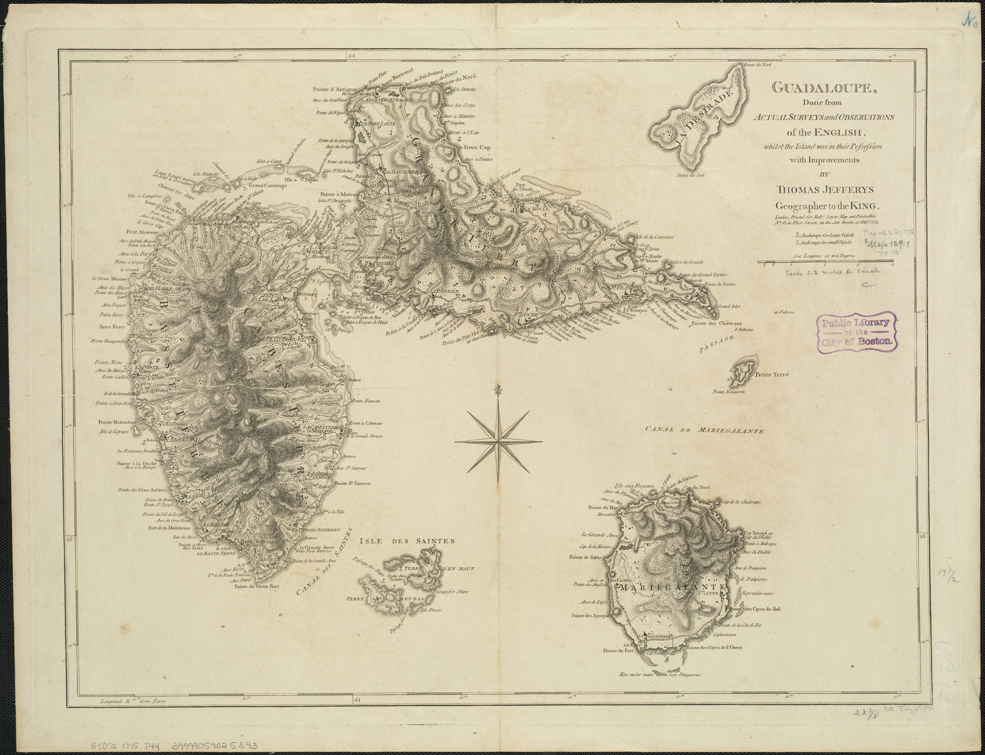 Zoom into this map at . Author: Jefferys, Thomas Publisher: Sayer, Robert Date: 1775 Location: Guadeloupe, Marie-Galante (Guadeloupe) Dimension 45x60cm Scale: ca. 1:300,000 Call Number: G5072 1775 .J44